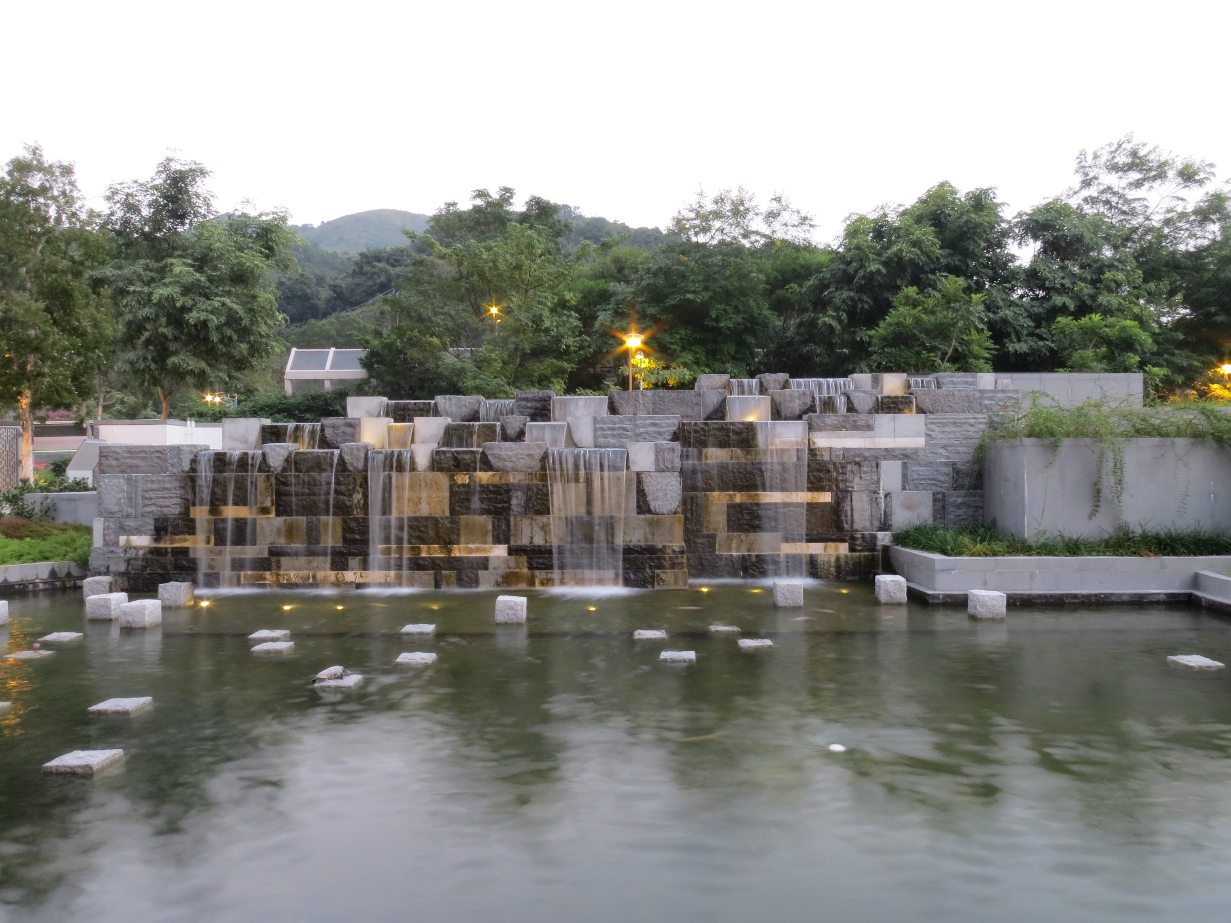 Waterfall in Hang Hau Man Kuk Lane Park, Hong Kong.